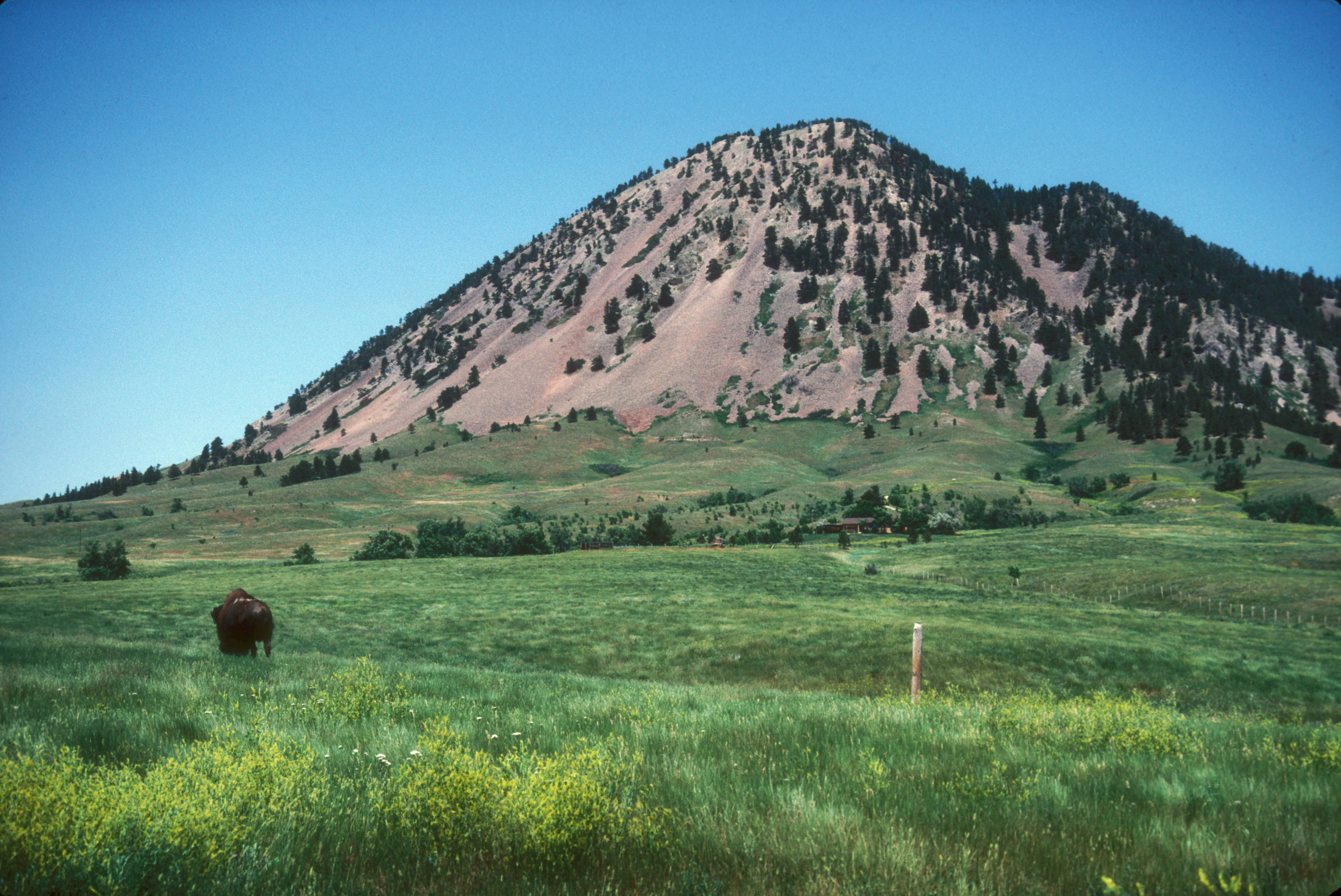 18TH-20TH C CONE SHAPED MOUNTAIN SACRED TO THE CHEYENNE INDIANS AS A PRAYER ALTAR